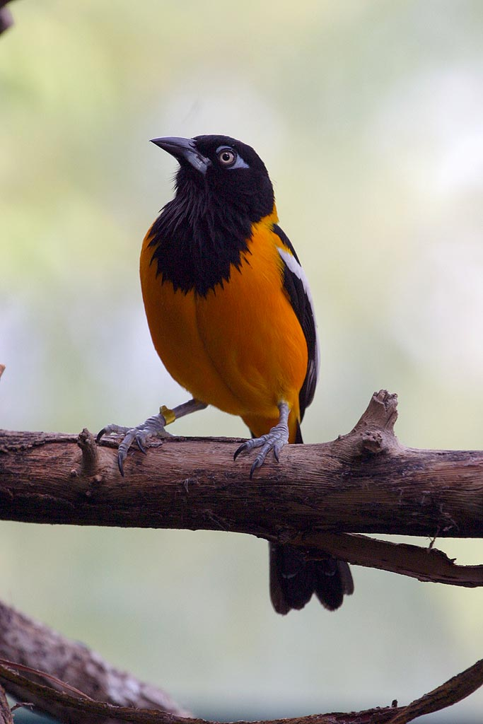 Photograph of a Common Troupial Icterus icterus taken at the Nashville Zoo (Tennessee, USA)